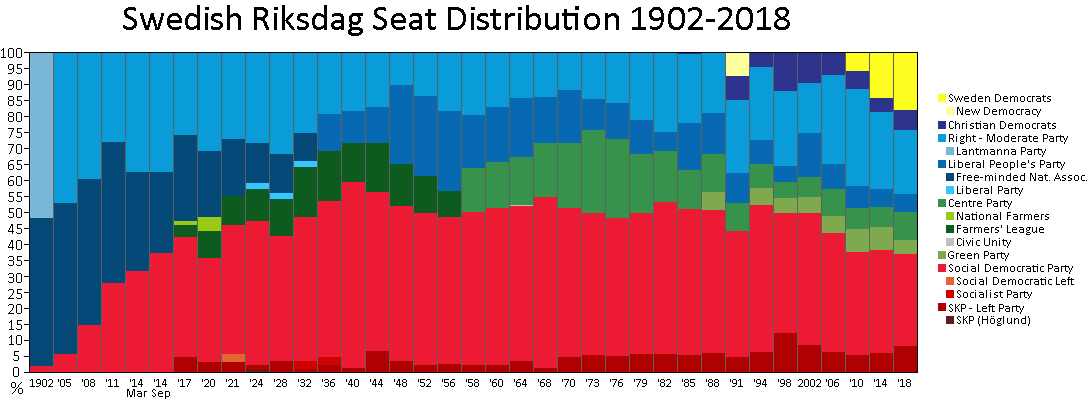 A detailed distribution of seats in the Swedish Riksdag from every election between 1902 and 2018.